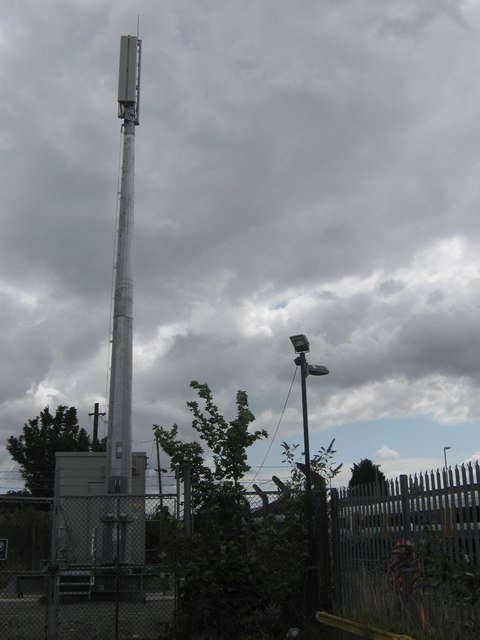 3G Mobile Phone Mast, beside Railway, Gillingham This mast is at the end of Gillingham Railway Station carpark, beside the mainline running from Gillingham towards Rainham. The planning application for this mast was defeated by local opposition and the council, but was then appealed and granted by the High Courts. But St Mary's Catholic Primary School parents and friends are still campaigning to remove this mast.